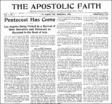 Front page of The Apostolic Faith's first issue, September 1906.